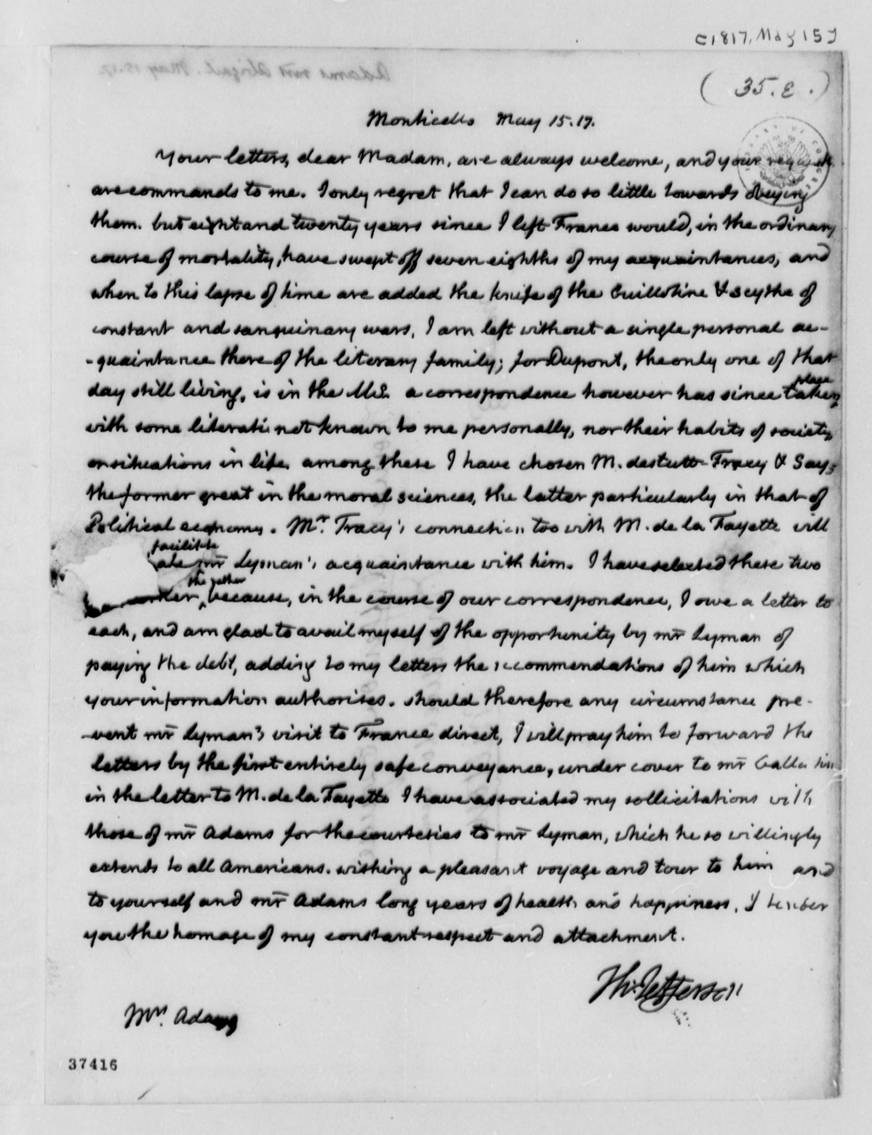 One of the last letters between former President Thomas Jefferson and Abigail Adams, wife of former President John Adams. Written by Jefferson at Monticello, his Virginia home, 15 May 1817. The Thomas Jefferson Papers, Series 1, General Correspondence, The Library of Congress, Washington, D. C.